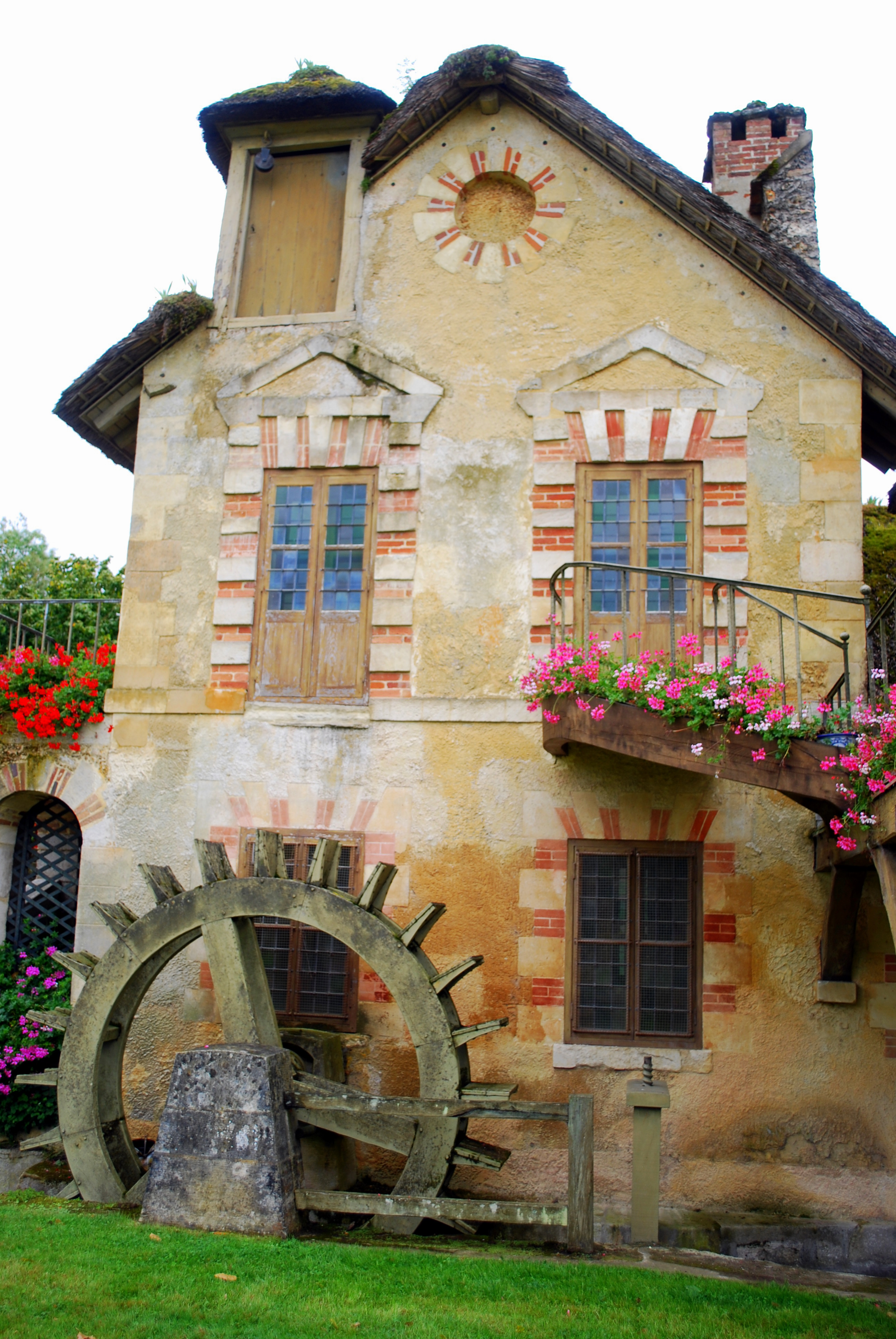 Queen's garden and Hamlet